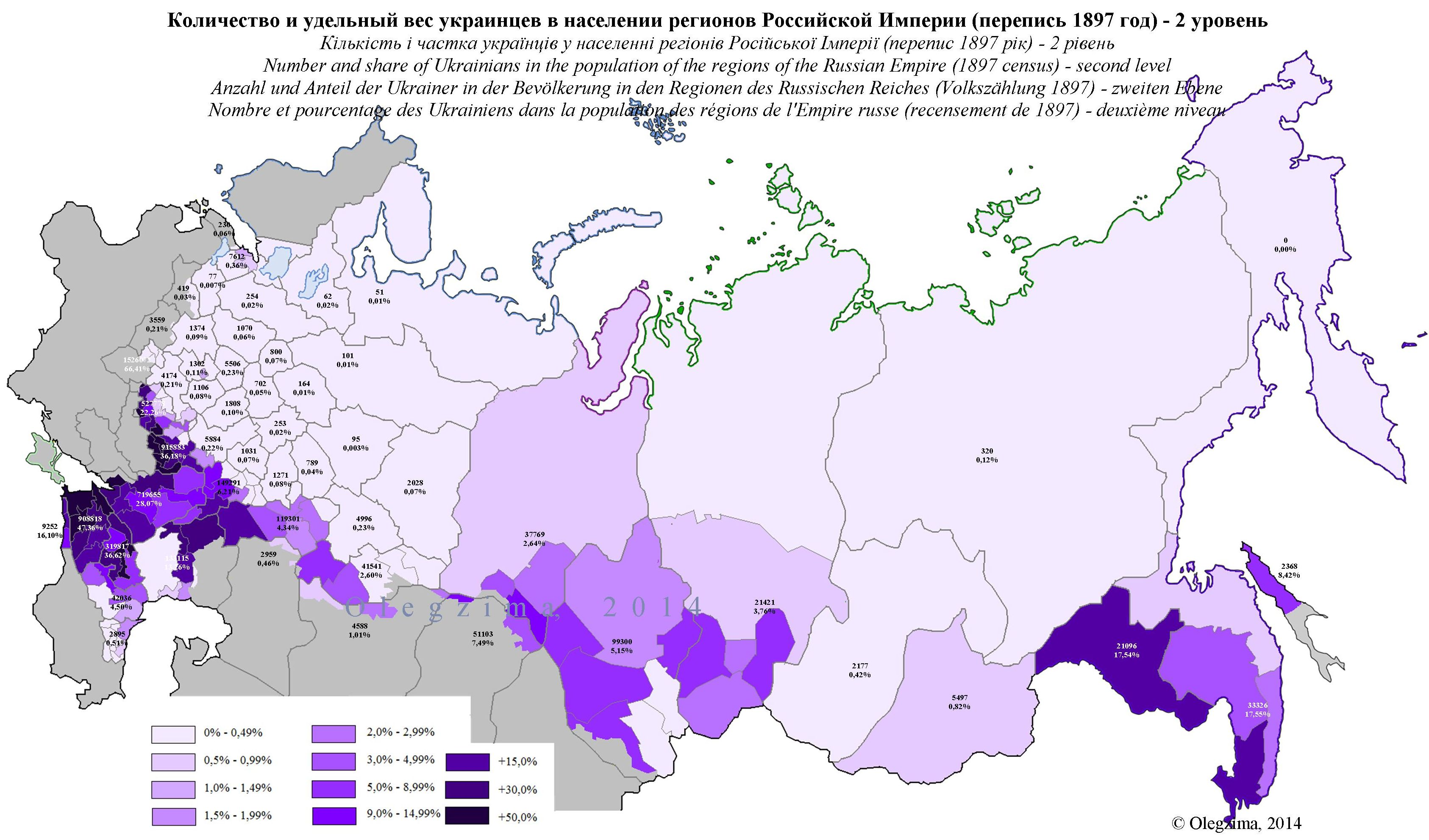 Number and share of Ukrainians in the population of the regions of the Russian Empire (1897 census)